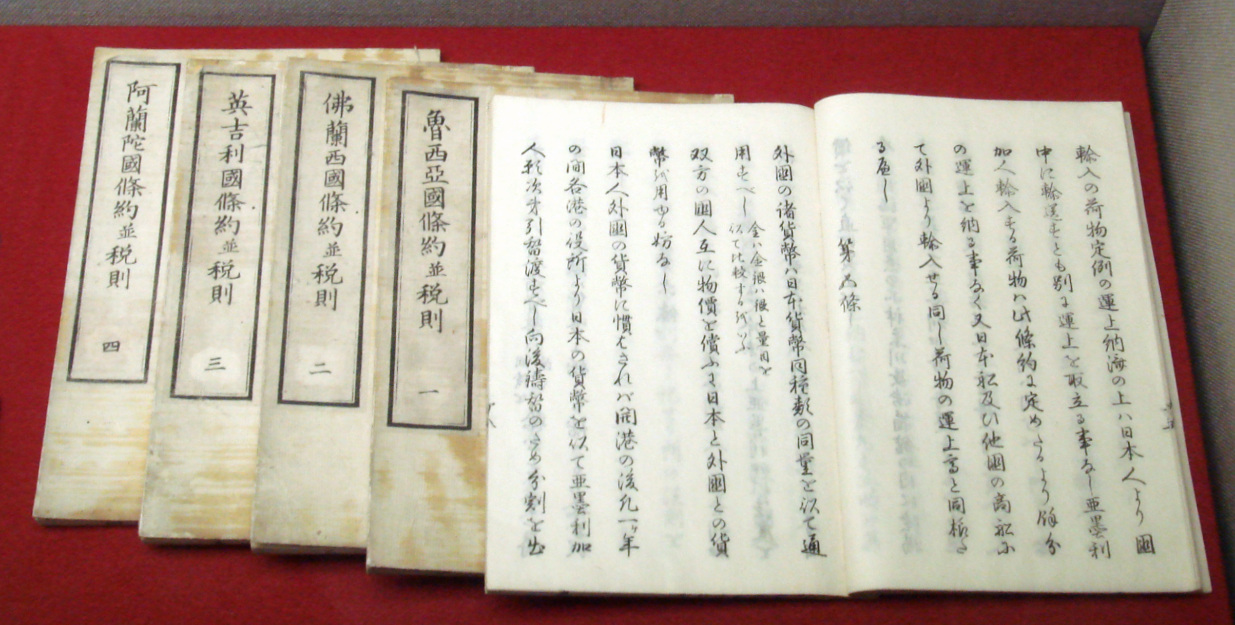 Ansei Treaties (Ansei Five-Power Treaties) of Japan; The Treaty of Amity and Commerce (with the United States) on July 29, 1858. The Treaty of Amity and Commerce between the Netherlands and Japan, on August 18, 1858. The Treaty of Amity and Commerce between Russia and Japan on August 19, 1858. The Anglo-Japanese Treaty of Amity and Commerce (with the United Kingdom) on August 26, 1858. The Treaty of Amity and Commerce between France and Japan on October 9, 1858.